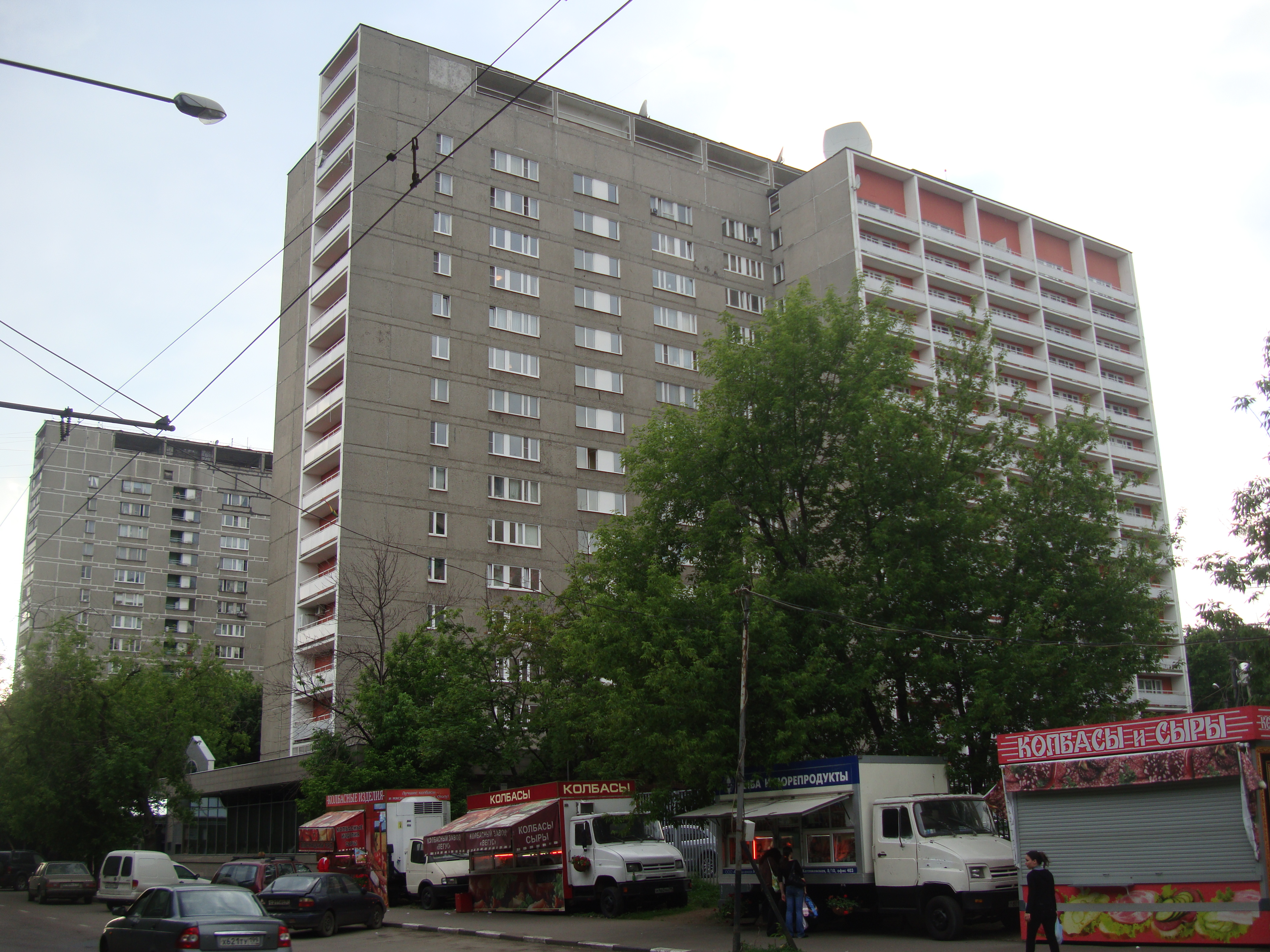 8 Serpukhovski Val Street, Moscow, Russia. Embassy of Bolivia. Улица Серпуховский Вал, д.8, Москва, РФ. Посольство Боливии